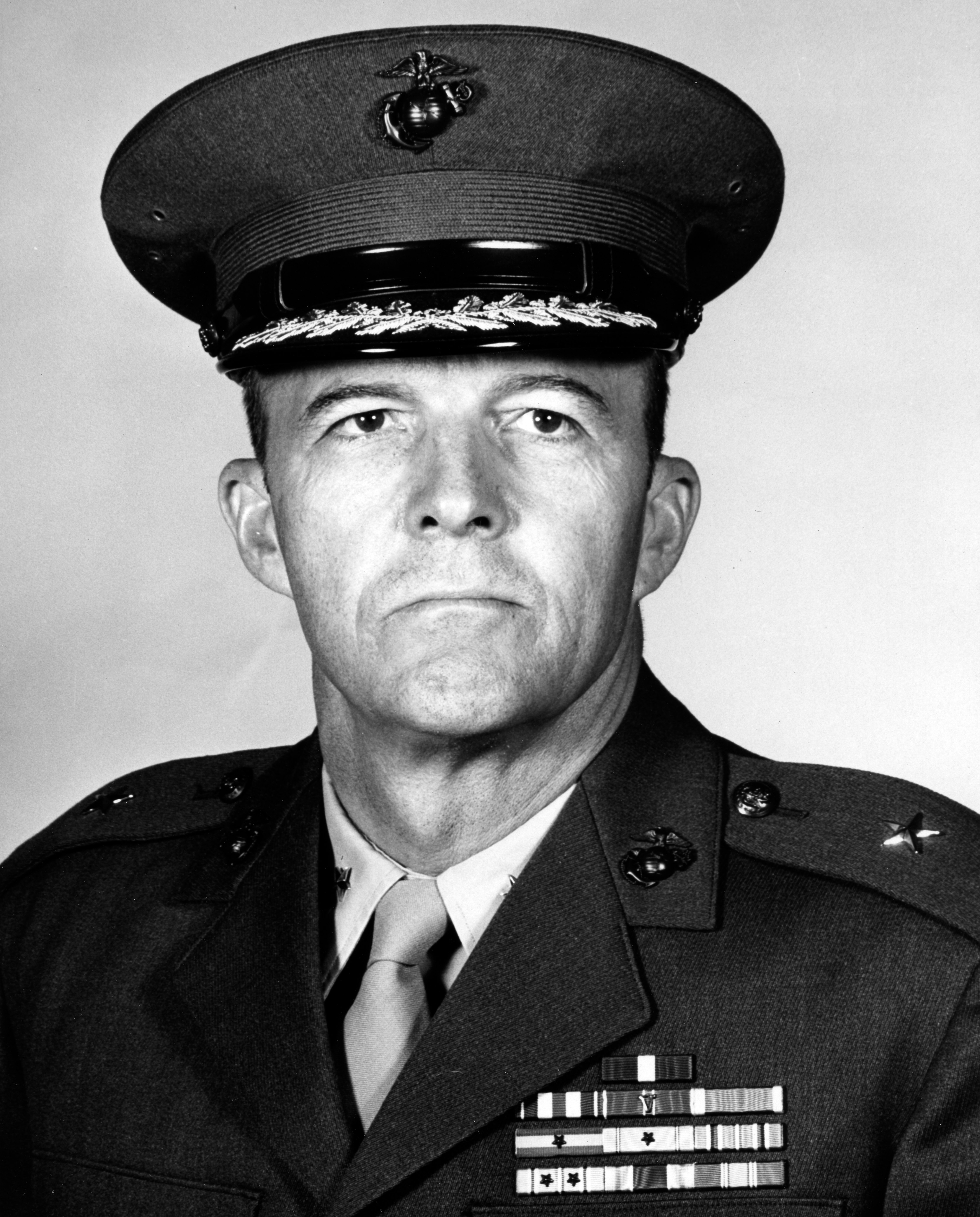 Edward Hunter Hurst (December 18, 1916 - September 6, 1997) was a highly decorated officer of the United States Marine Corps with the rank of Brigadier General. He is the recipient of the Navy Cross, the United States military's second-highest decoration awarded for valor in combat. He completed his career as Director of Marine Corps Landing Force Development Center Quantico in 1968.